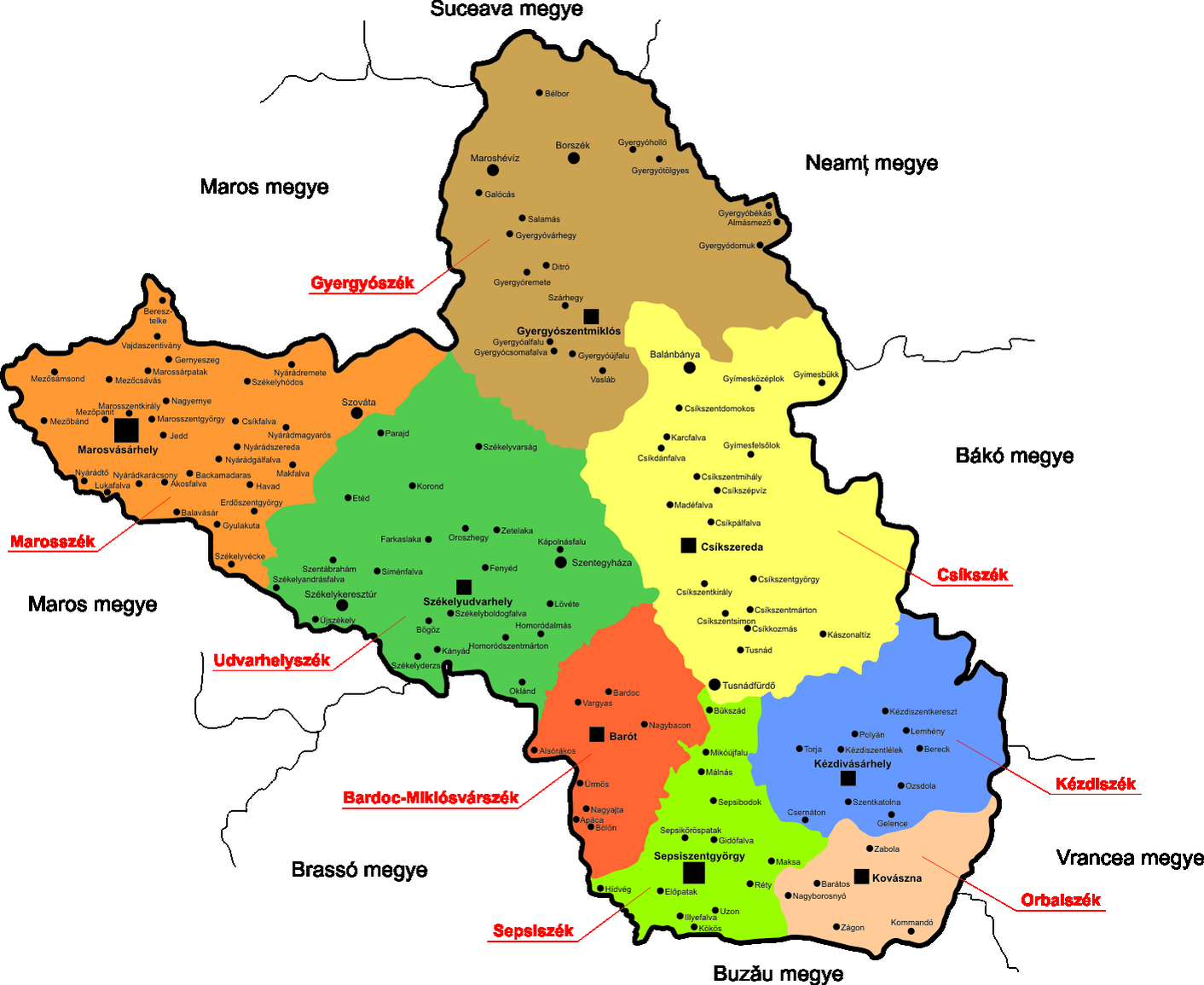 Planned autonomous Szekler seats (area described by Szekler National Council)